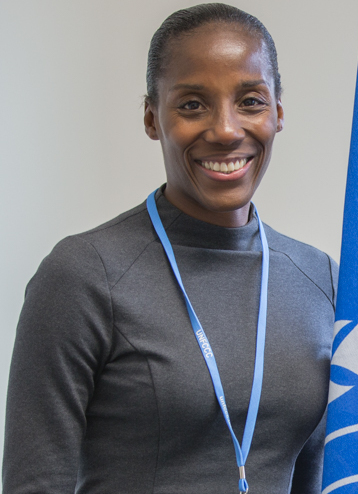 UNFCCC Executive Secretary meets Fiona May, Olympic Games and world championship athlete